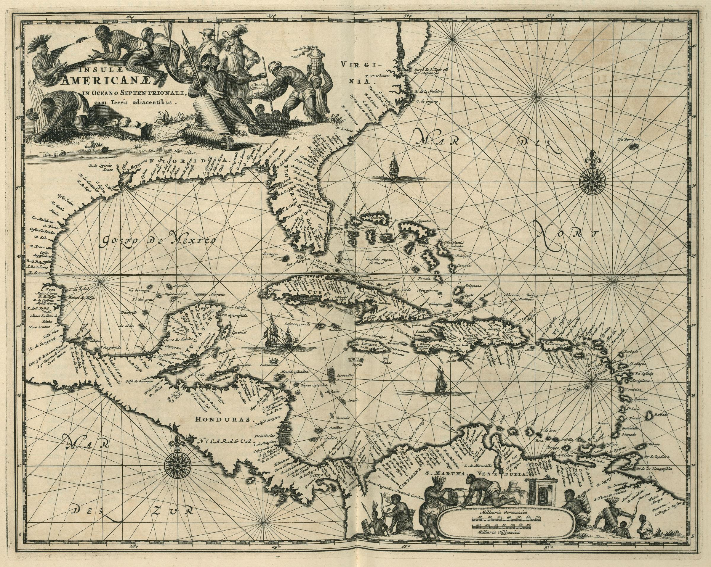 Map of the Caribbean region. Insuale Americanae in Oceano Septentrionali, Terris adiacentibus. Cf. Koninklijke Bibliotheek, The Hague, inv. nr. 1049B13_080.